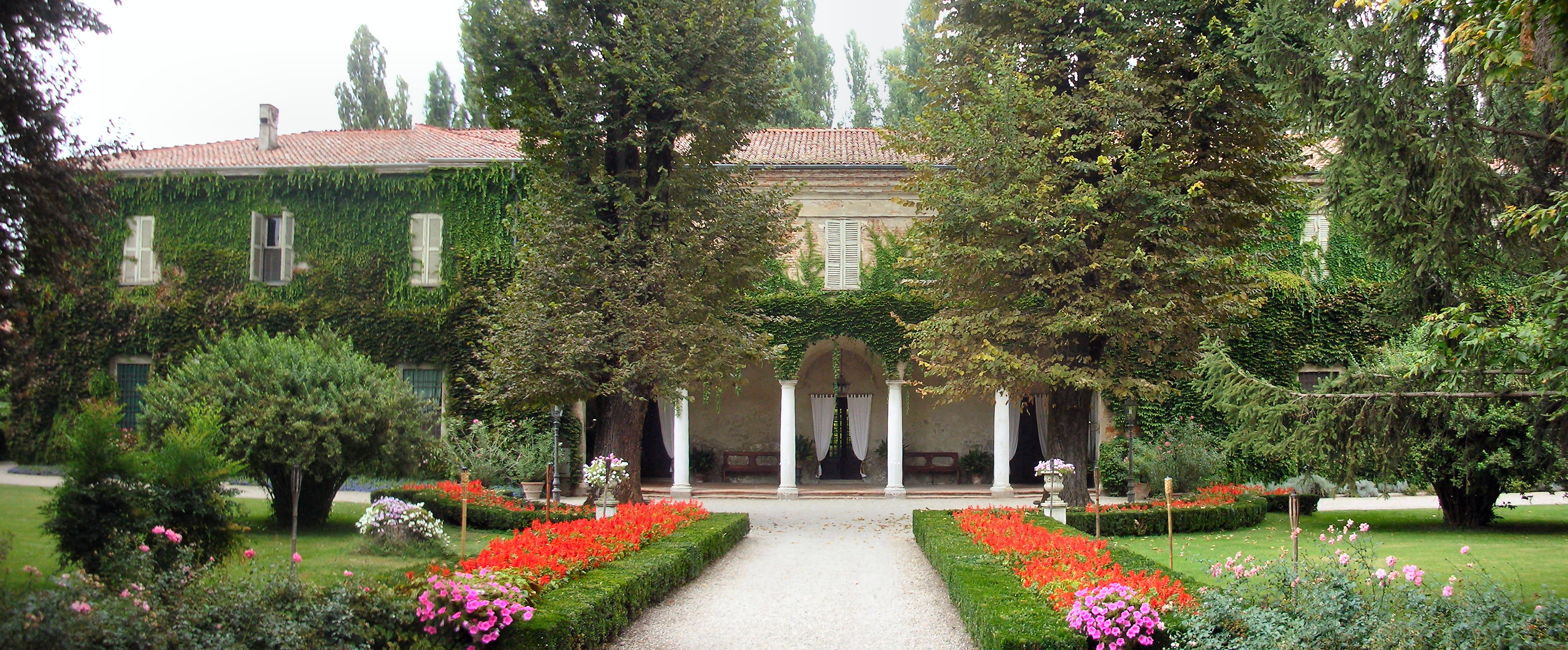 Villa Ferrari - facciata anteriore e giardino